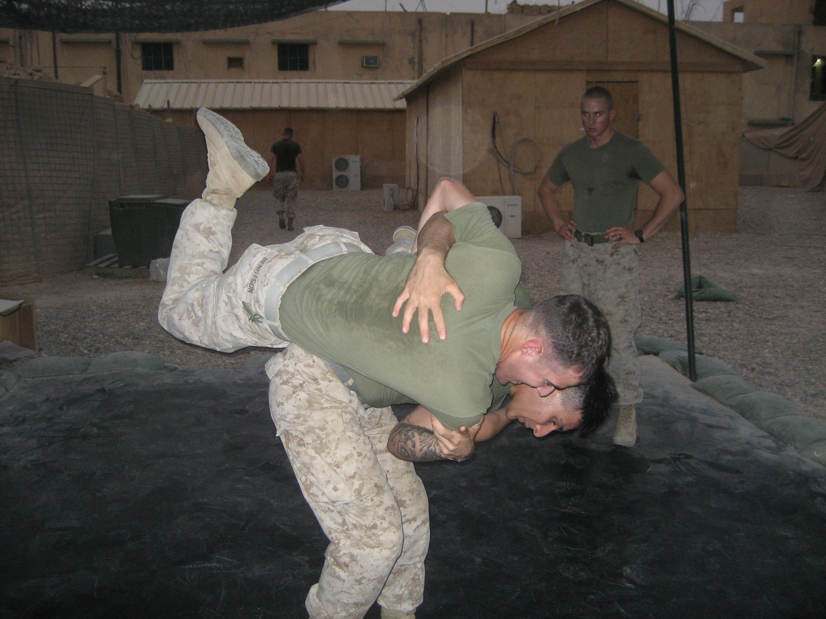 U.S. Marine demonstrating a Gray Belt hip throw technique, Marine Corps Martial Arts Program.